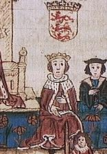 Llywelyn the Last, Prince of Wales and King of Gwynedd at a ceremony where he paid tribute Henry III of England (not shown in this portion of the table).